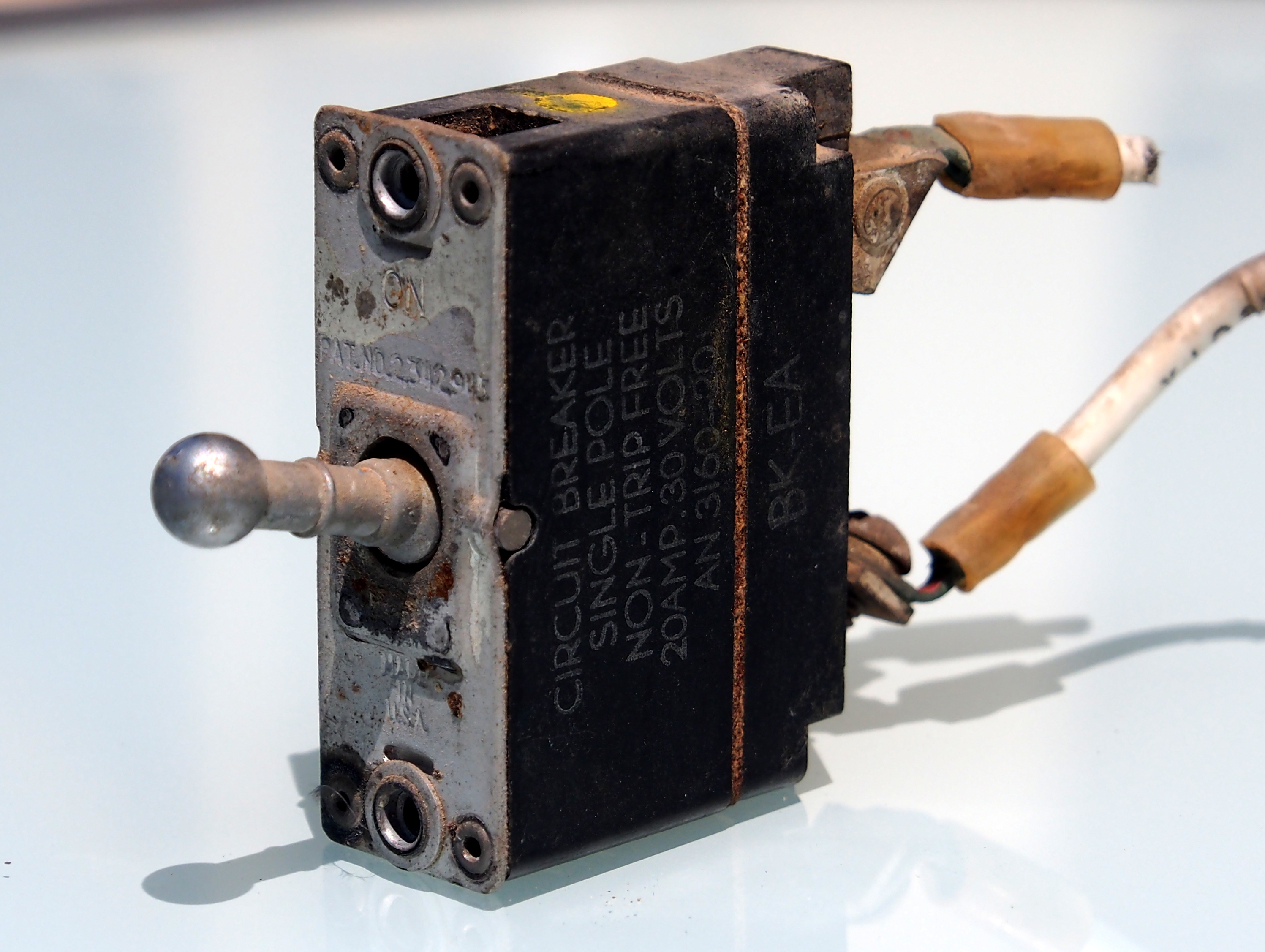 Found at the Radio Relay Station Former USAF microwave relay station ACE-High system at Lefkada, Greece